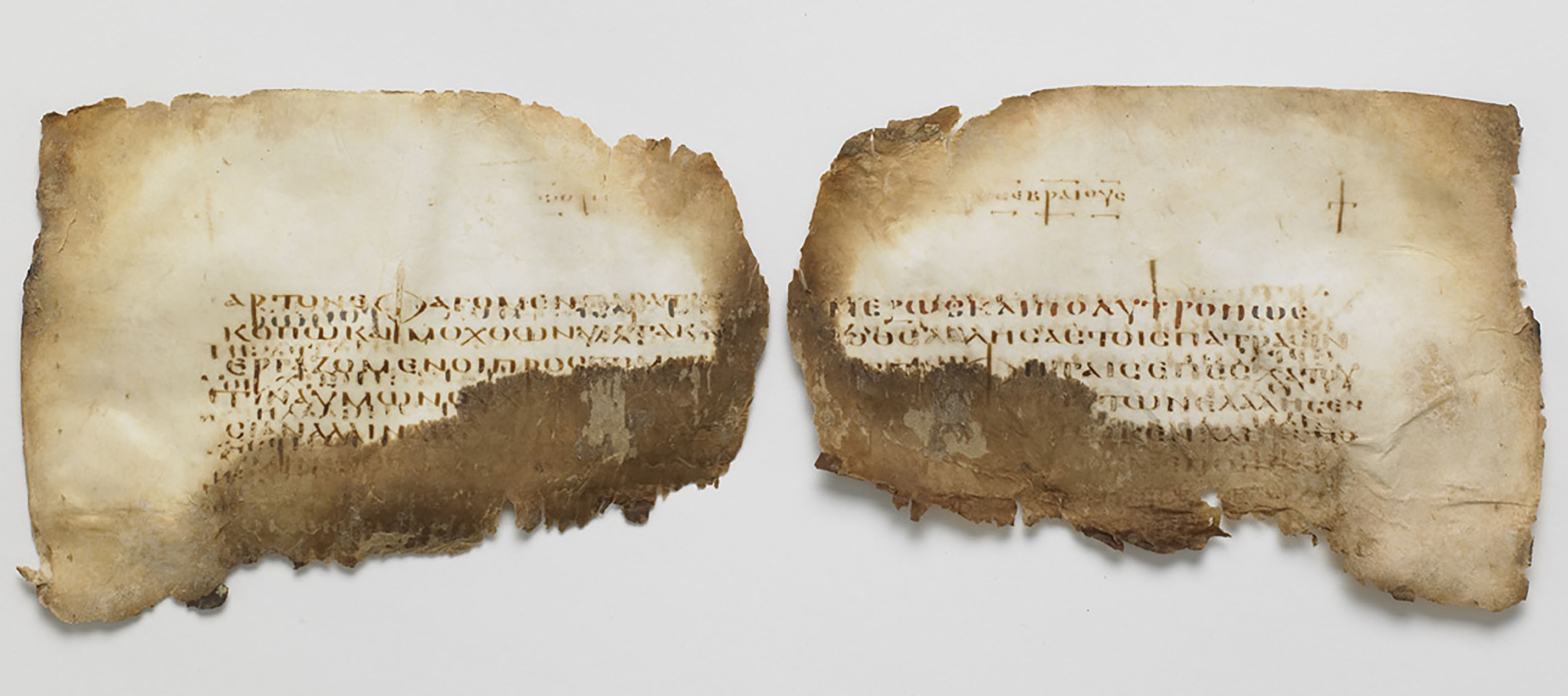 Ink on parchment H: 16.0 W: 10.5 cm Egypt 6th century